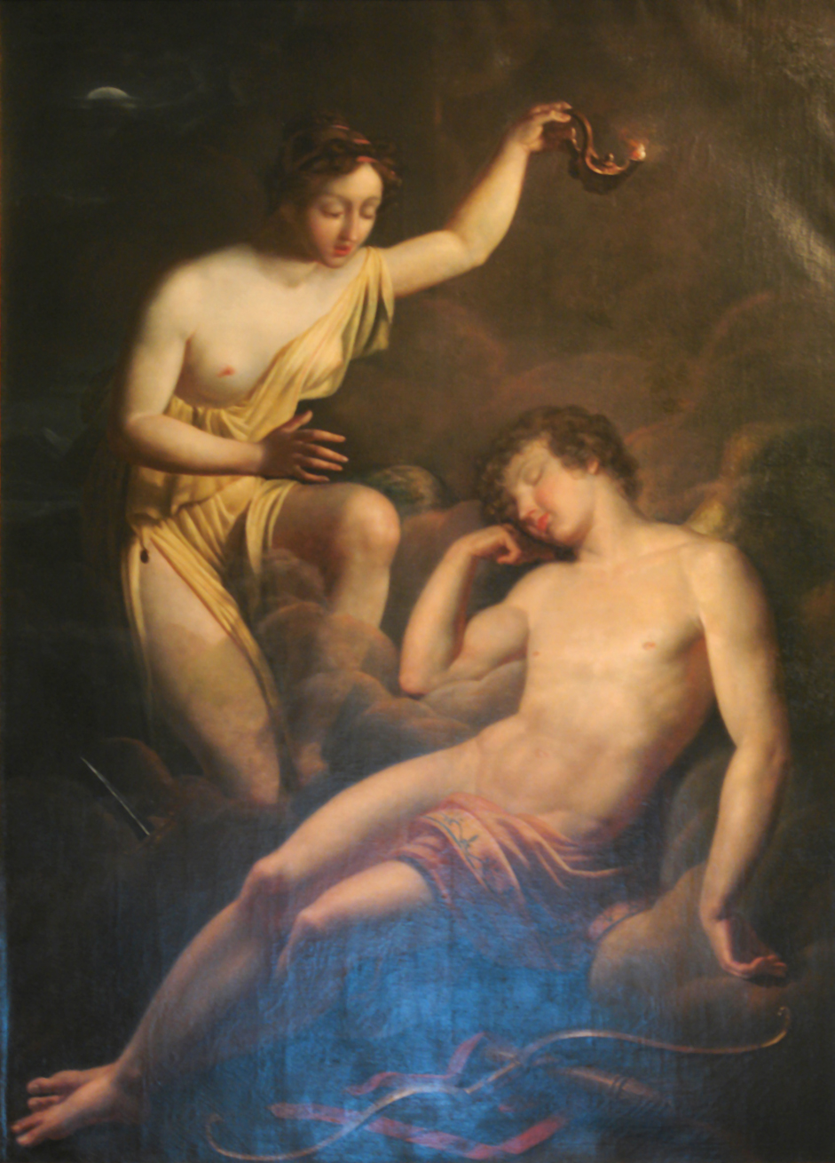 Nicolas de Courteille. 1768-NOT EARLY 1830. Amor (Eros) and Psyche. Oil on canvas. St. Michael's Castle, St. Pitersburg, Russa